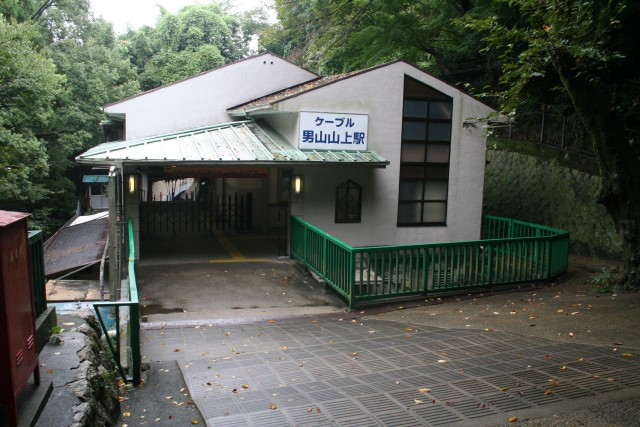 Keihan Otokoyama Cable Otokoyama-sanjo Station